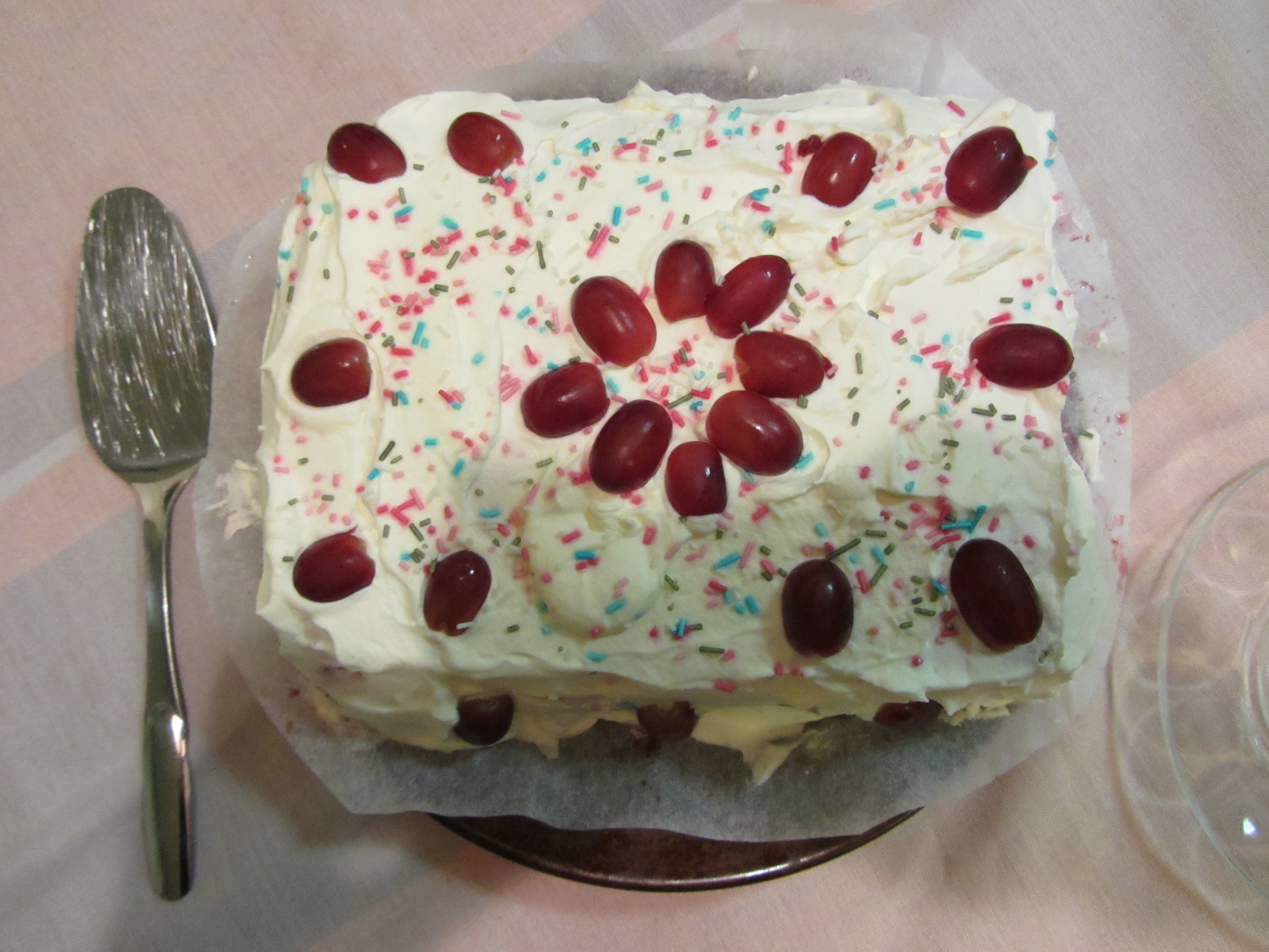 Home-made layered cream cake